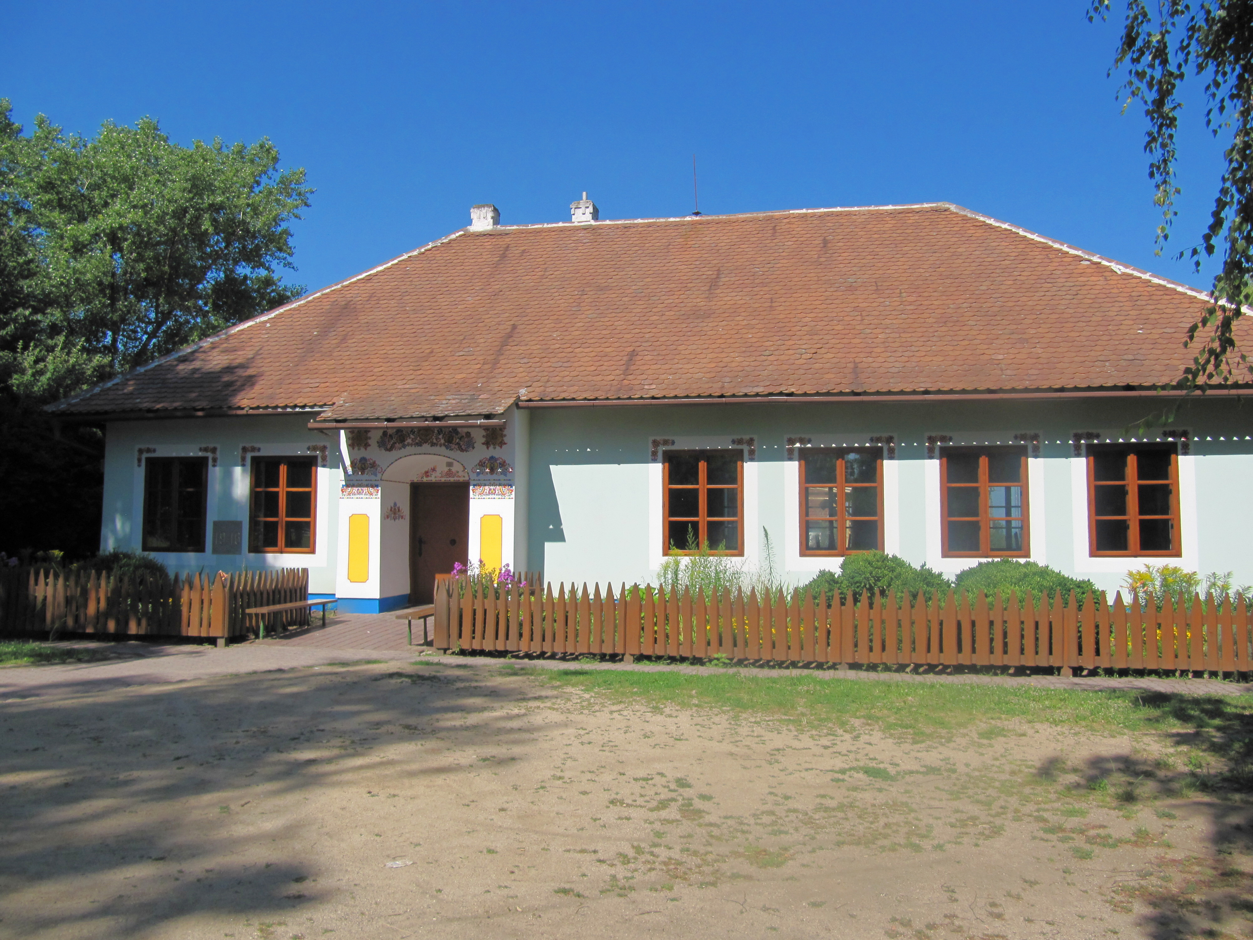 Tvrdonice in Břeclav District, Czech Republic. Moravian cottage. This photograph was taken within the scope of the third year of the 'Czech Municipalities Photographs' grant.